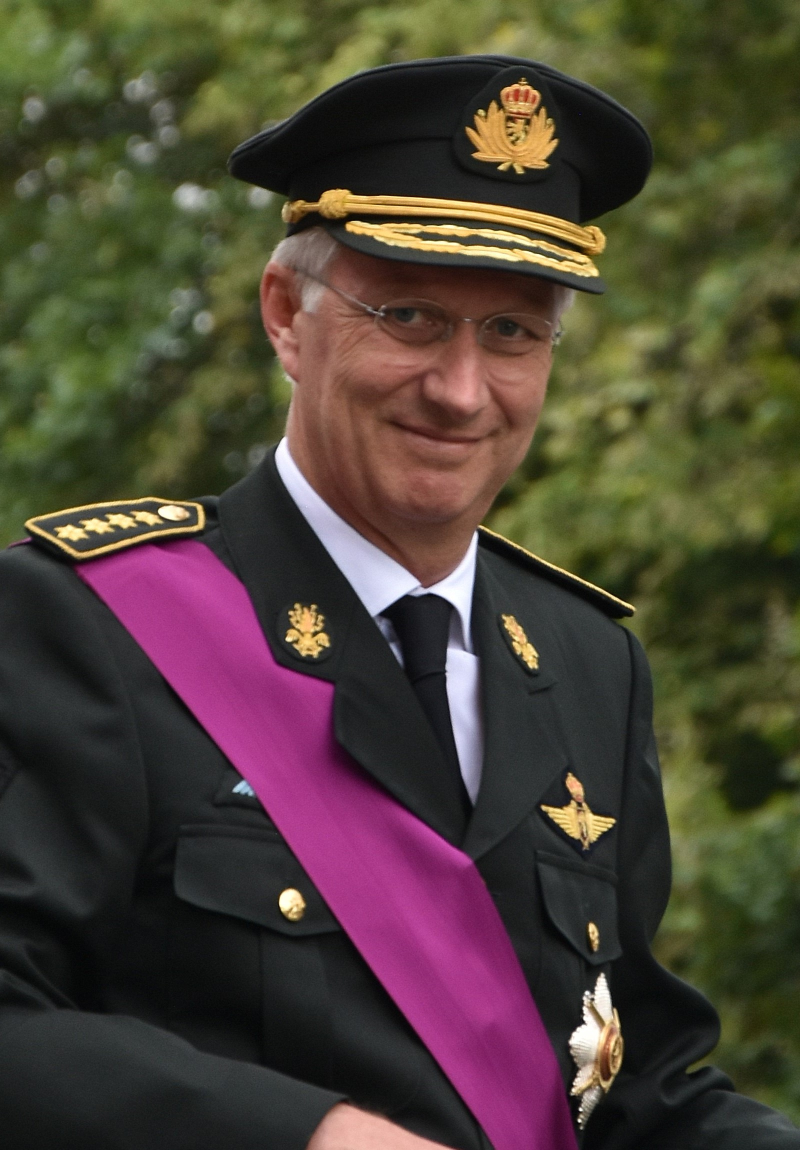 King Philippe of Belgium at the national parade on 21 July 2018.